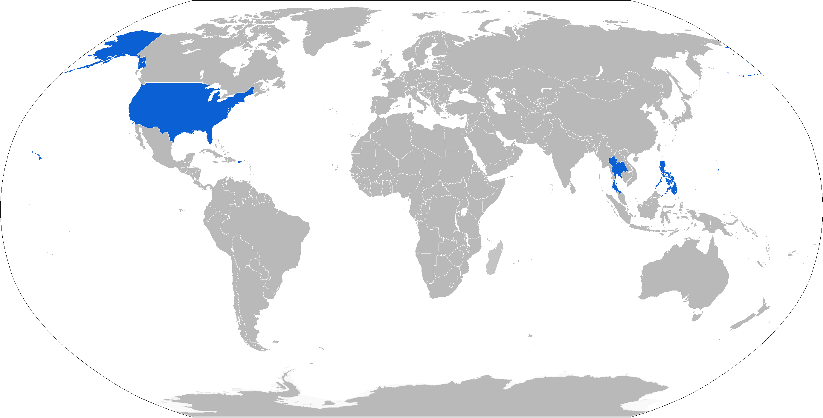 Map with LAV-600 operators in blue